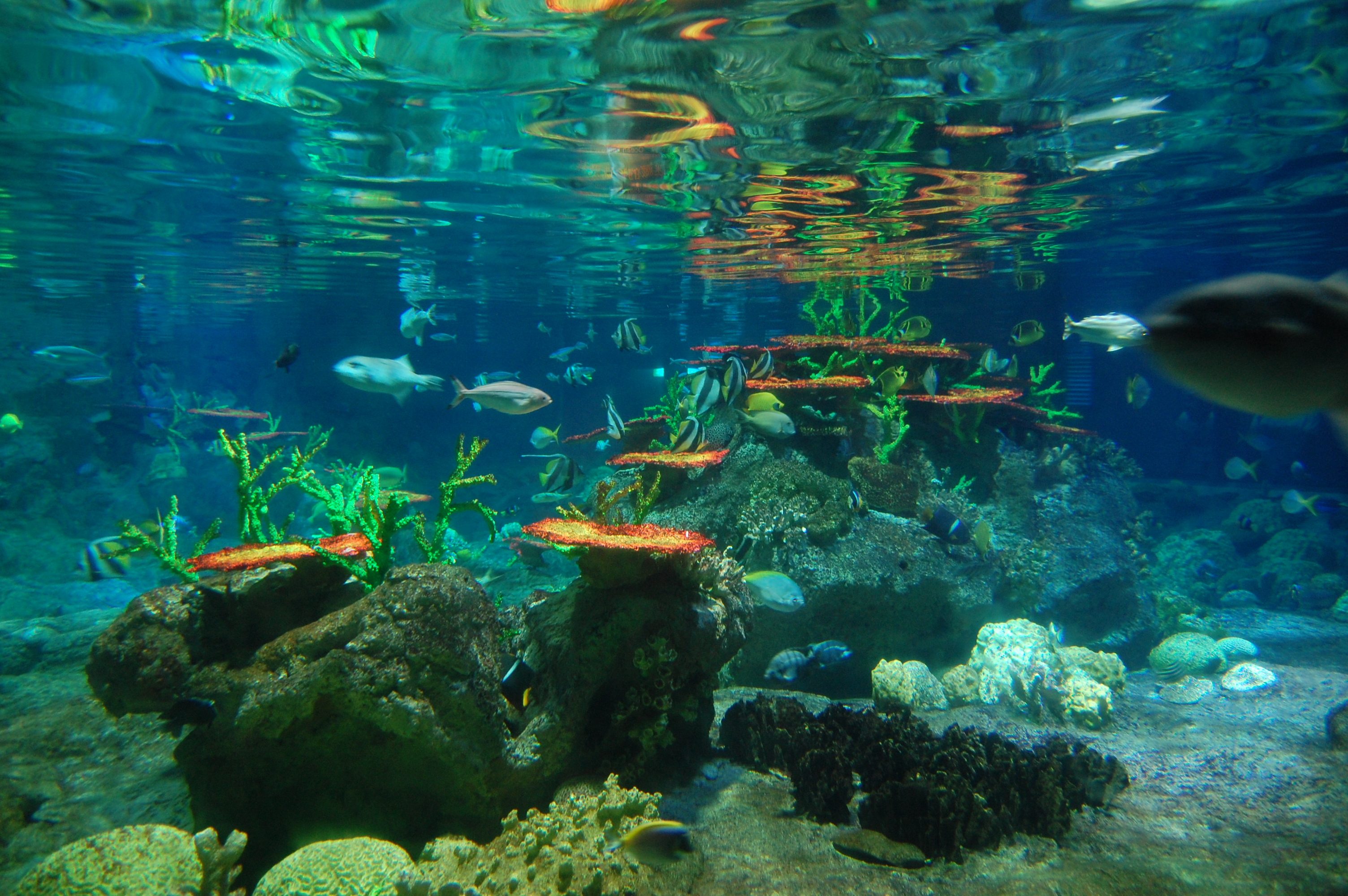 A large variety of fishes can be found in the Ocean Park aquarium. Note: It is pretty sticky inside.